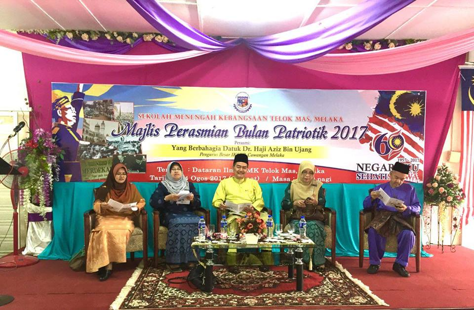 Majlis Perasmian Bulan Patriotik 2017 Dirasmikan oleh : Yang Berbahagia Datuk Dr. Haji Aziz Bin Ujang Pengurus Besar, Institut Kajian Sejarah dan Patriotisme (IKSEP) Cawangan Melaka